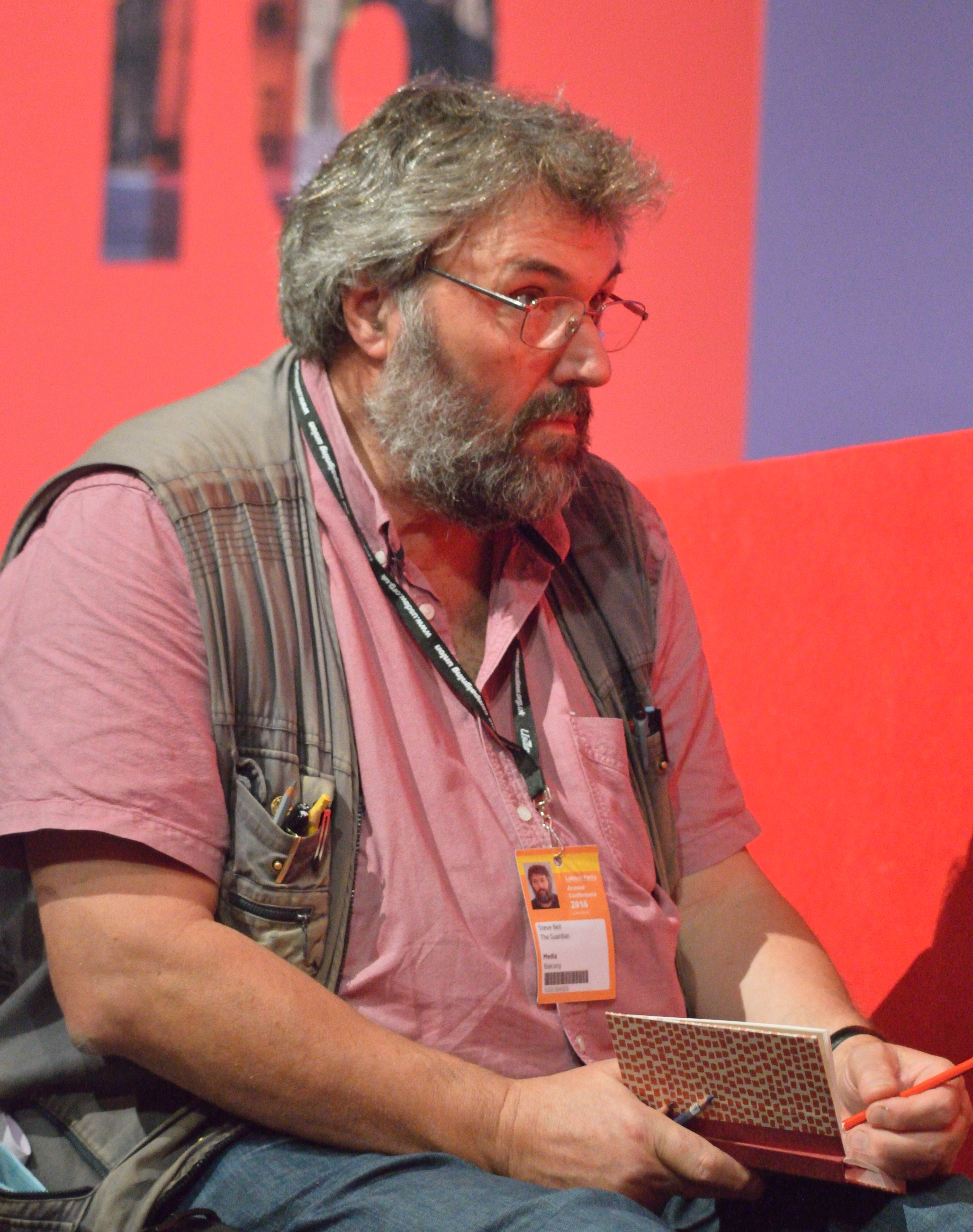 Steve Bell working at the front of the conference hall of the 2016 Labour Party Conference, while Andy Burnham was giving his final Shadow Home Secretary speech before preparing to stand in the 2017 Mayor of Greater Manchester election.